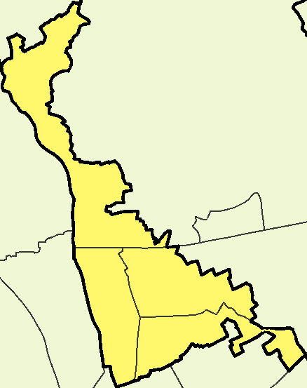 Mesa Geitonia Municipality with quarters.